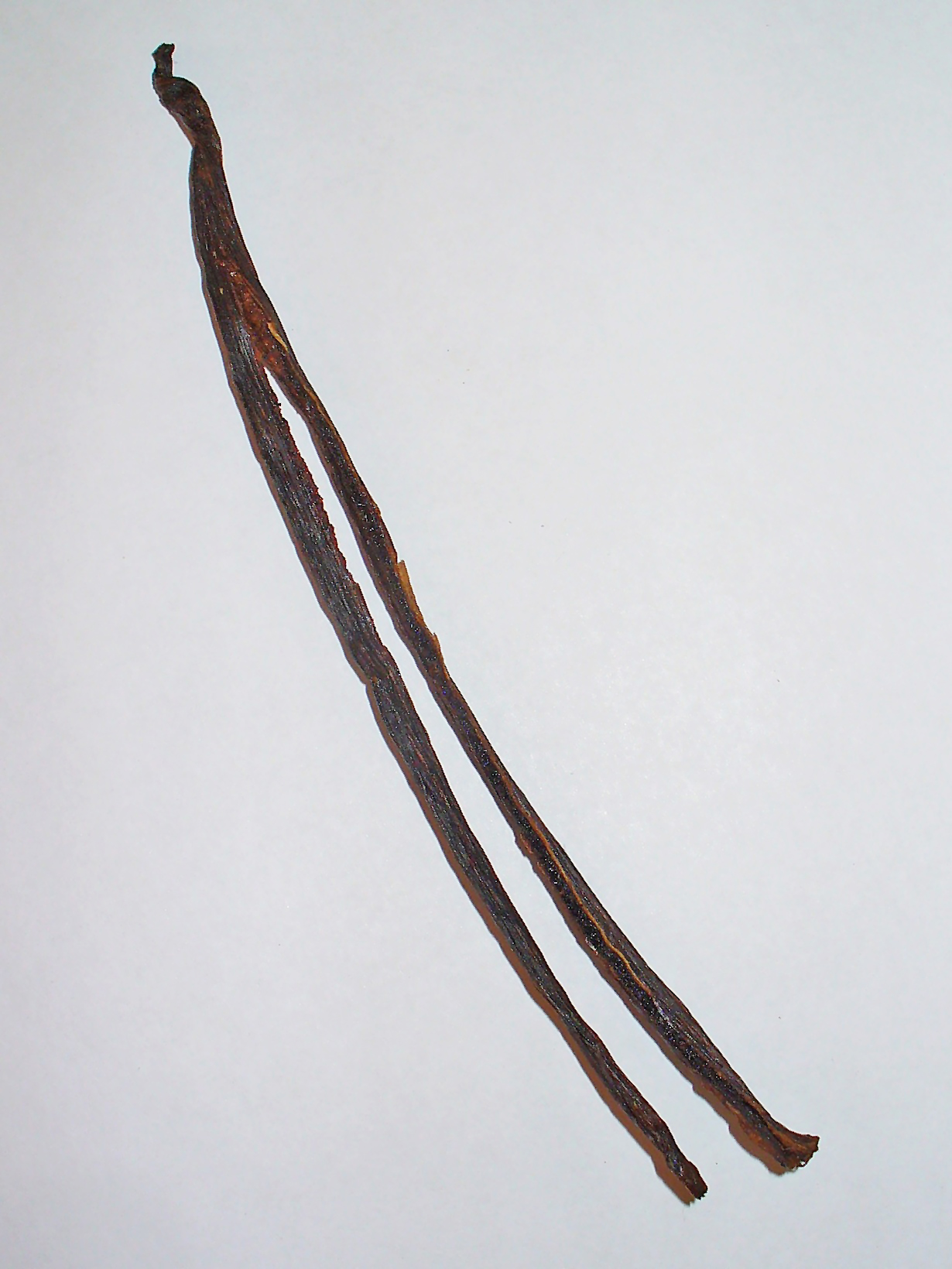 Vanilla planifolia, Orchidaceae, Flat-leaved Vanilla, Tahitian Vanilla, West Indian Vanilla, pod. The fresh ripe pods are used in homeopathy as remedy: Vanilla planifolia (Vanil.)